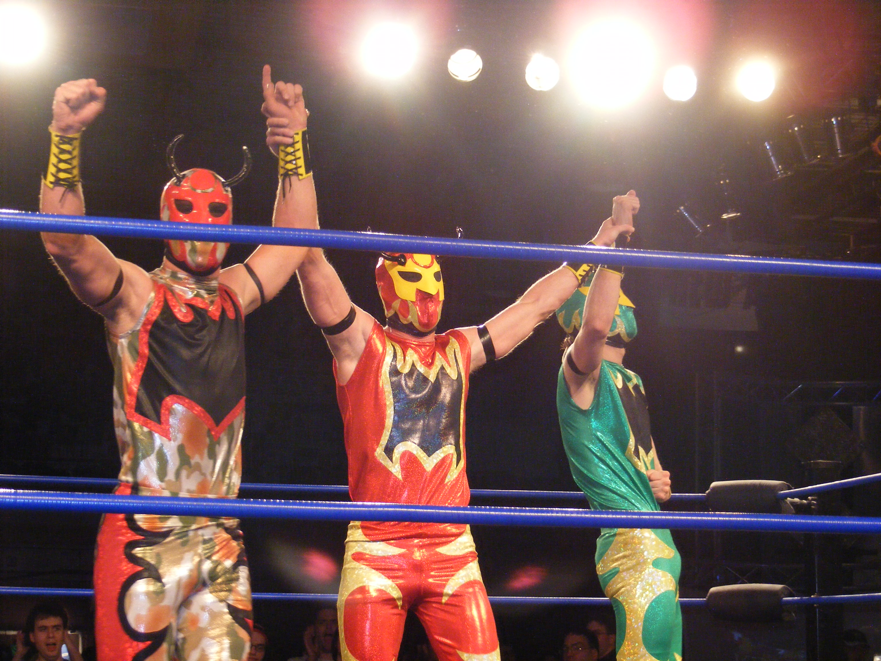 Professional wrestling stable The Colony at Chikara's Trios Night 2 show in Philadelphia on April 24, 2010.